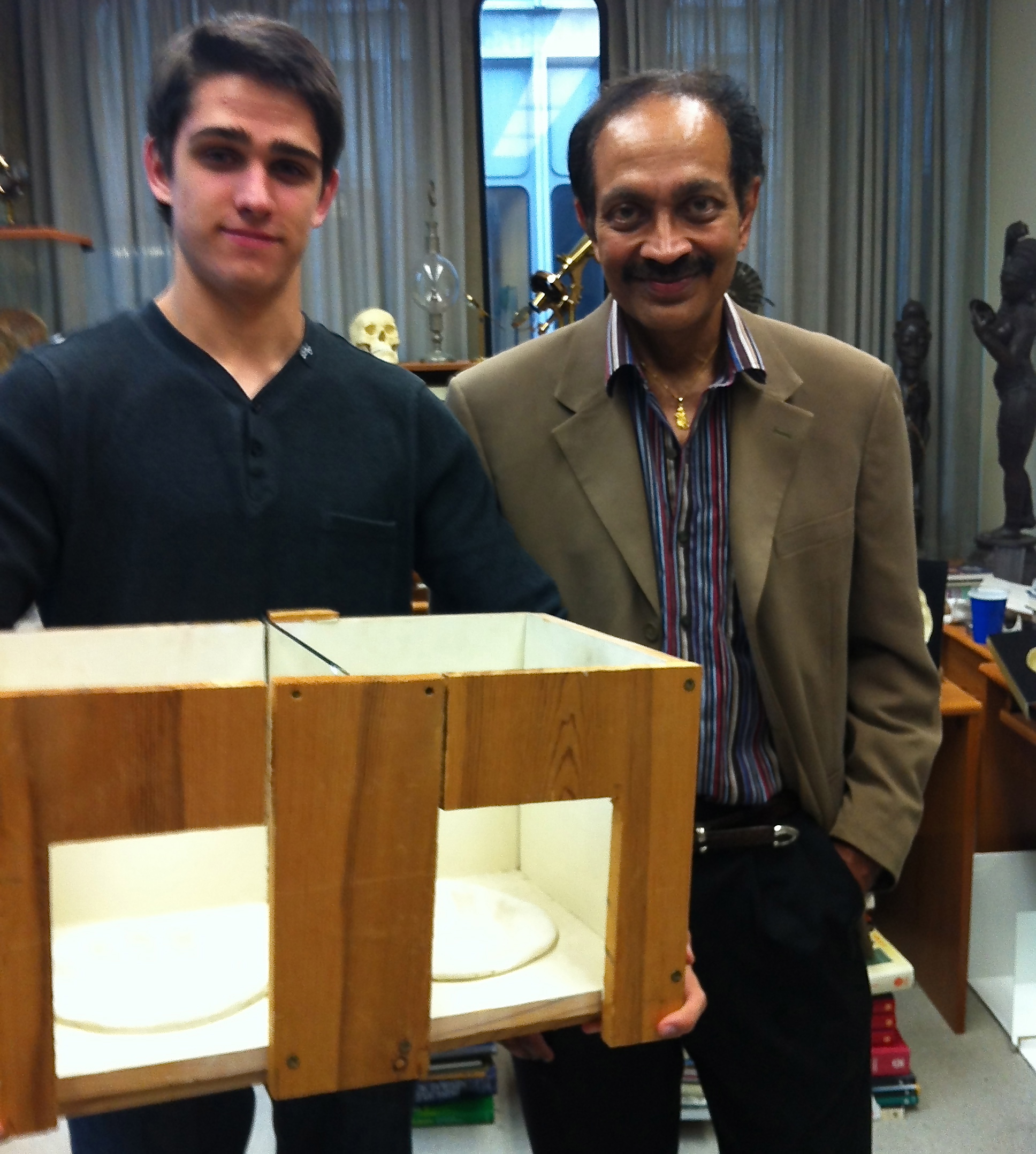 This is the original mirror box that was initially used to create relief withy phantom limbs in amputees. Dr. V.S. Ramachandran discovered the link between visual perception and nerve transmission, particularly with phantom limbs pain.